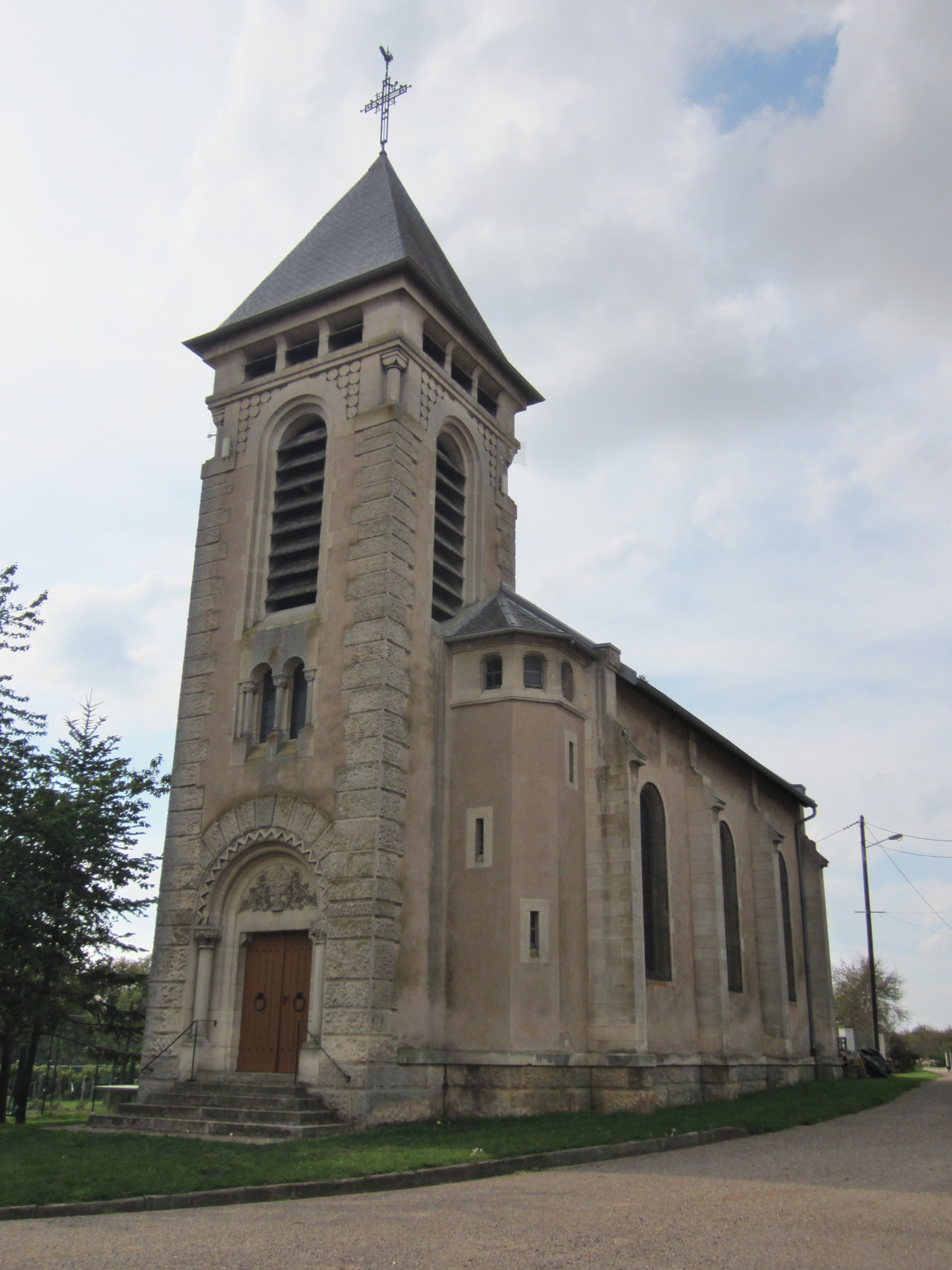 Description eglise Dommartin Chaussee Date27 September 2011Sourcemon appareil photoAuthorAimelaimePermission (Reusing this file) eglise Dommartin Chaussee